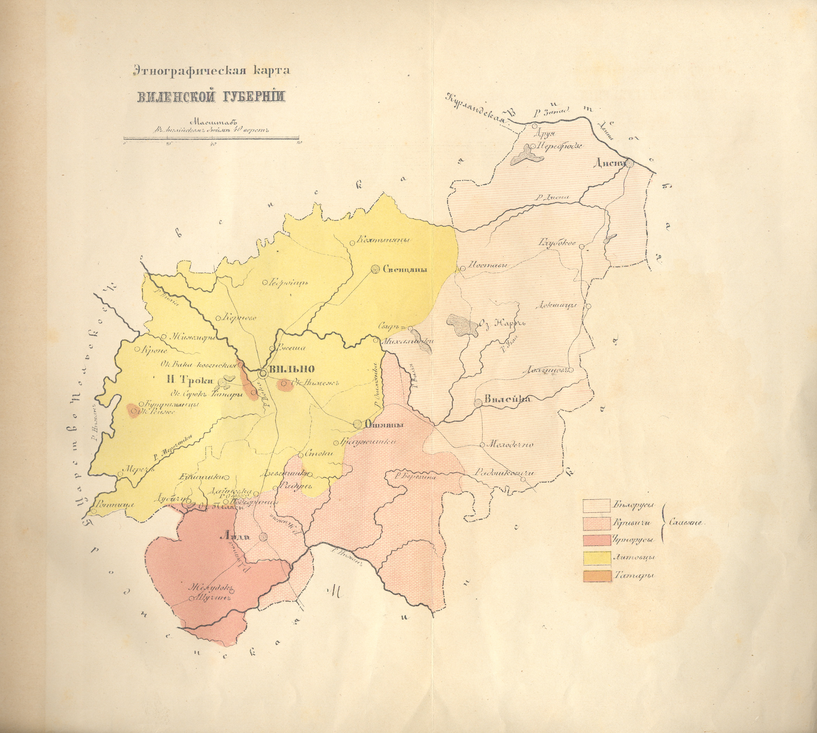 pseudo-Ethnographic map of Vilno governorate of Russian empire - made by an officer A. Koreva - 1861 AD